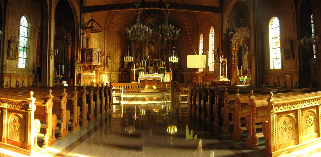 Church in Ząb, Poland